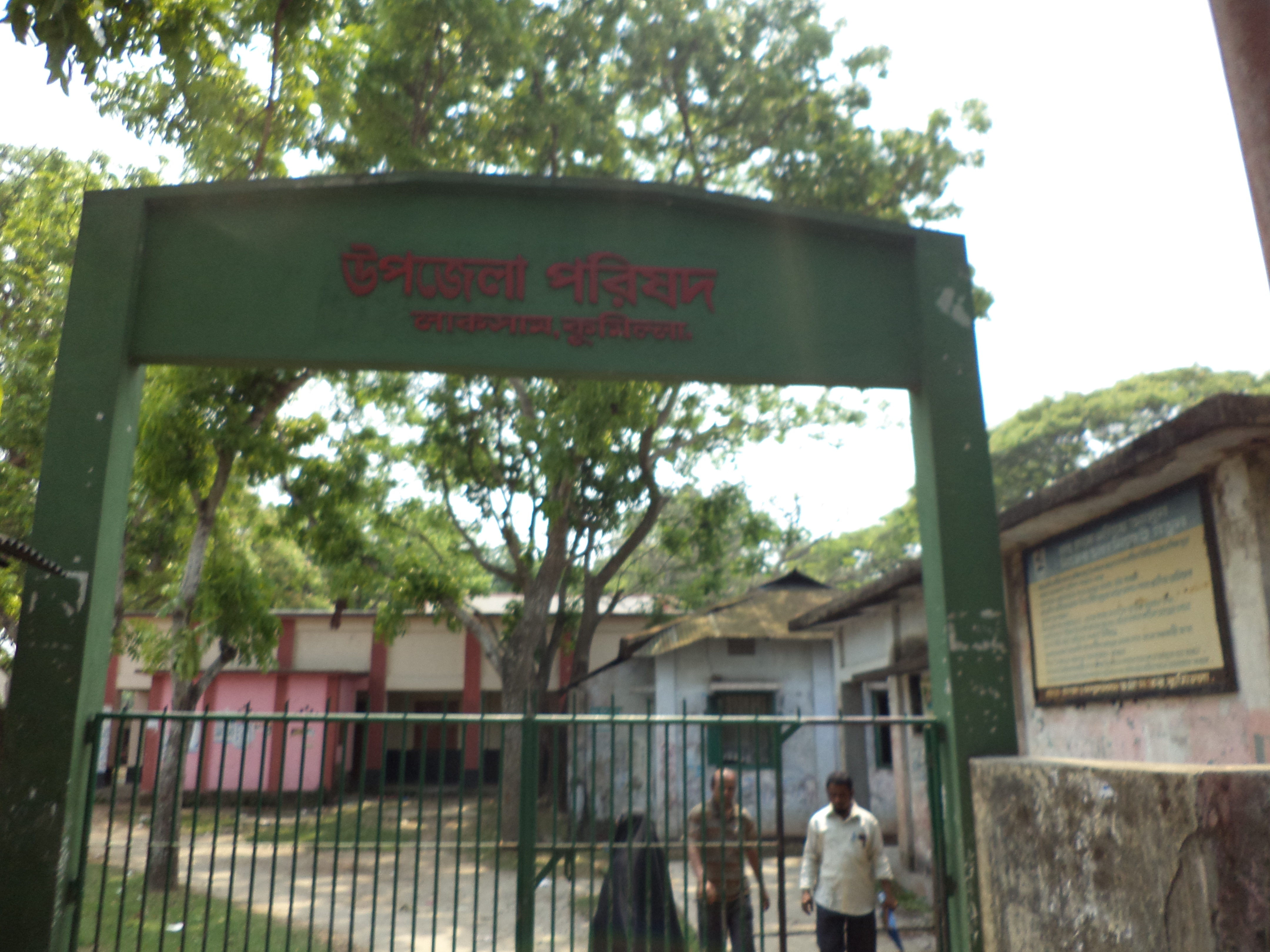 Laksam Upozilla office.